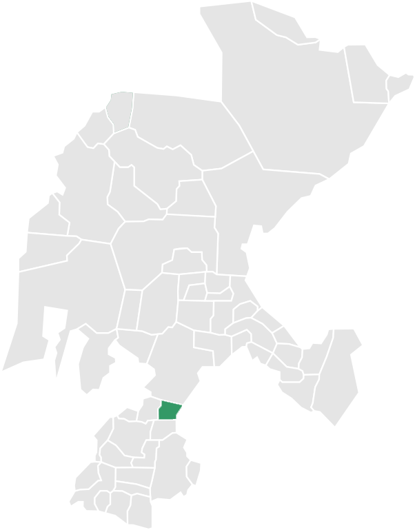 Map of the Municipality of Tabasco in Zacatecas, México.